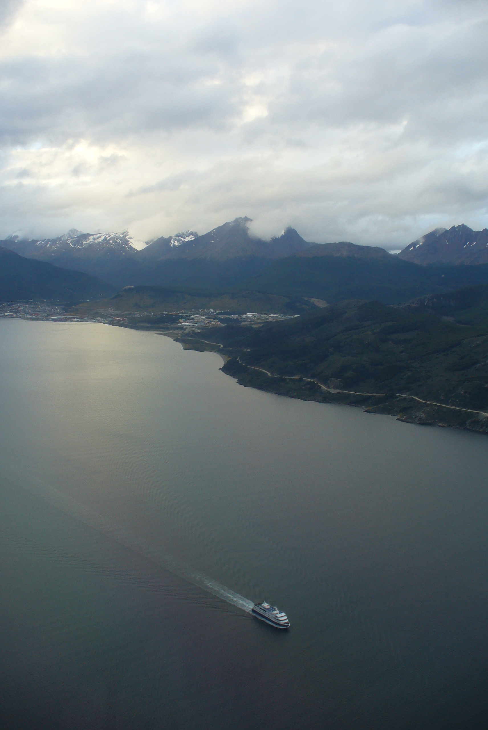 Aerial photography of the Beagle Channel, in the Background Ushuaia (Province Tierra del Fuego), Argentina. (from an airplane)